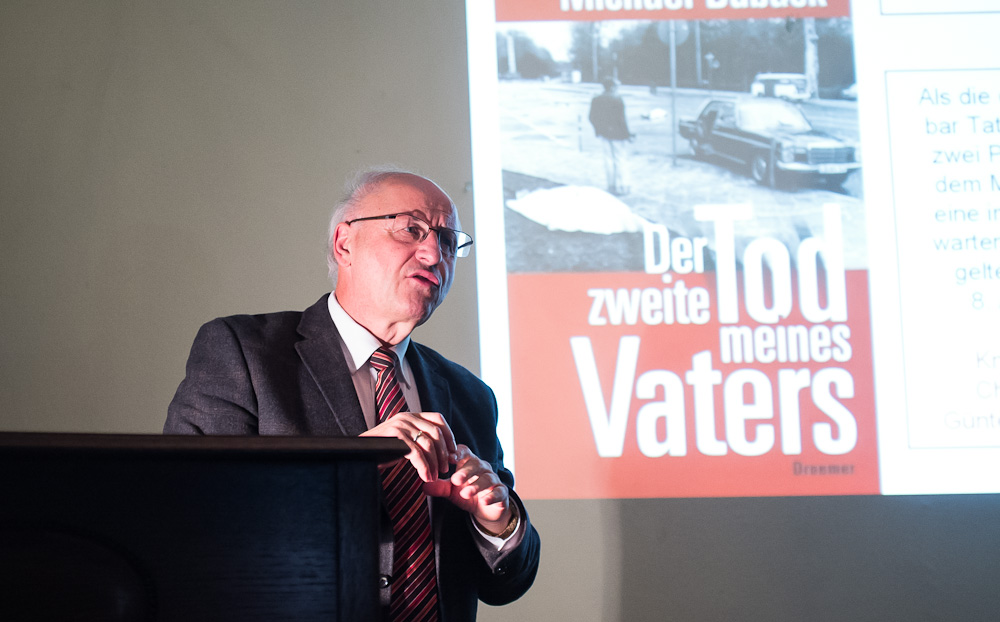 Prof. Dr. Michael Buback does a presentation about his book "Der zweite Tod meines Vaters".